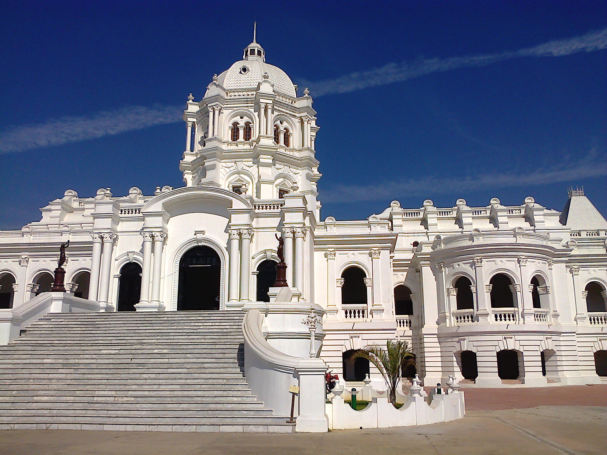 Ujjayanta Palace - Landmark of Agartala